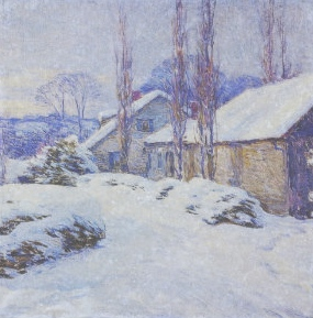 A view of the Shipman house, Brook Place, painted in Plainfield, NH at the Cornish Art Colony